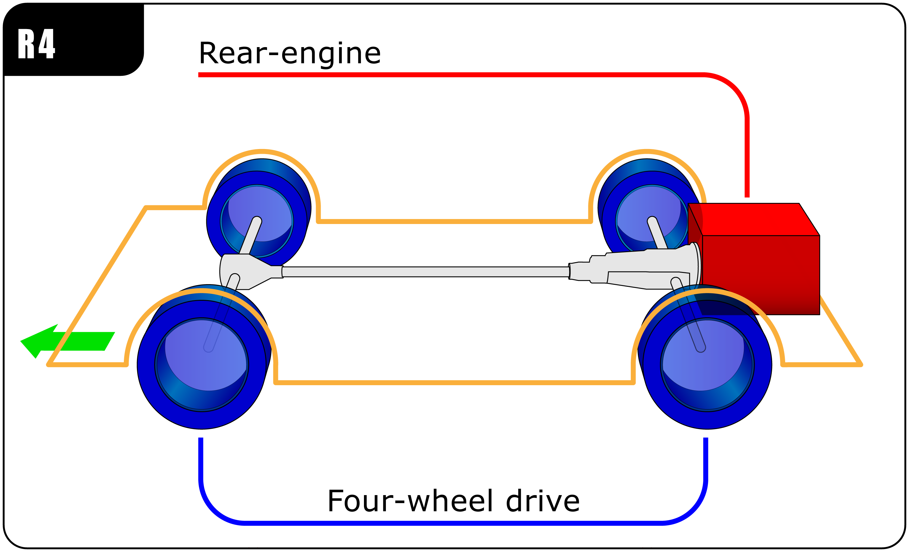 Vehicle engine and drive wheel placement diagrams (German versions coming soon)